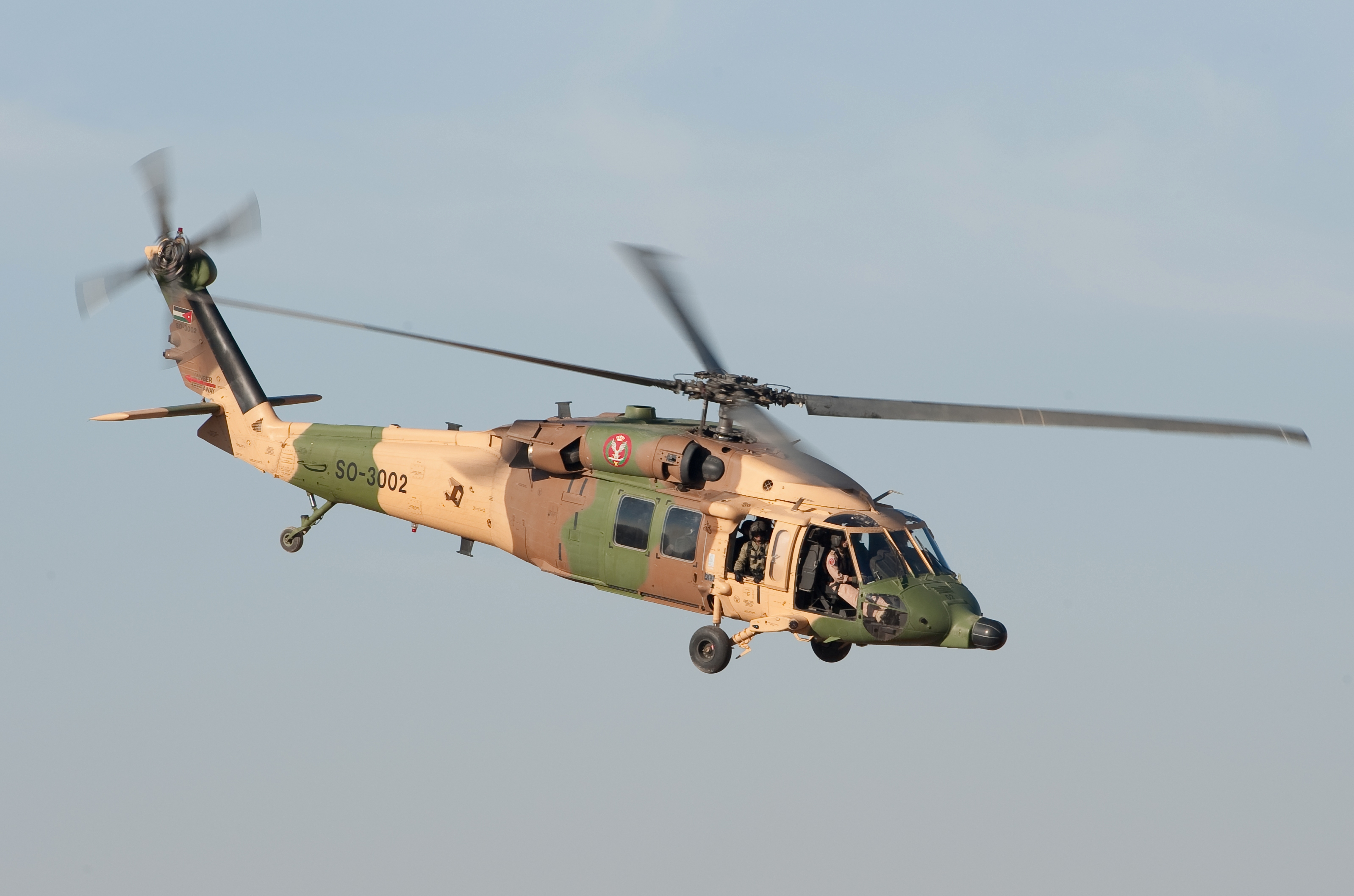 A Royal Jordanian Air Force UH-60 Black Hawk helicopter flies during a force extraction training exercise at the 2010 Falcon Air Meet Oct. 26, 2010, at Azraq Royal Jordanian Air Base, Azraq, Jordan.